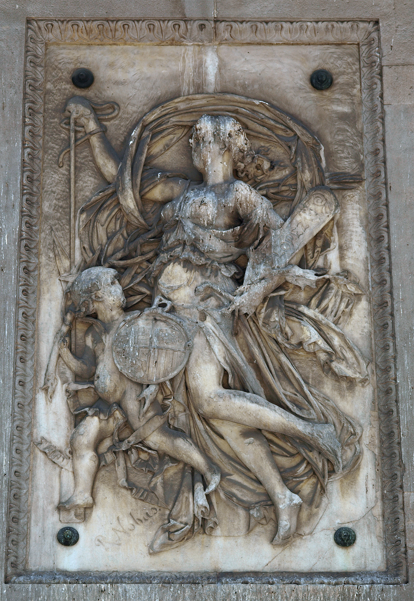 A Lopez Lopez also known as El Negro Domingo, is a sculpture created in 1884 by several prominent artists as Rossend Nobas, Joan Roig i Solé, Francesc Pagès i Serratosa, and Lluís Puiggener Venanci Vallmitjana i Barbany. It's located in Barcelona, Spain - Relief created by Rossend Nobas.